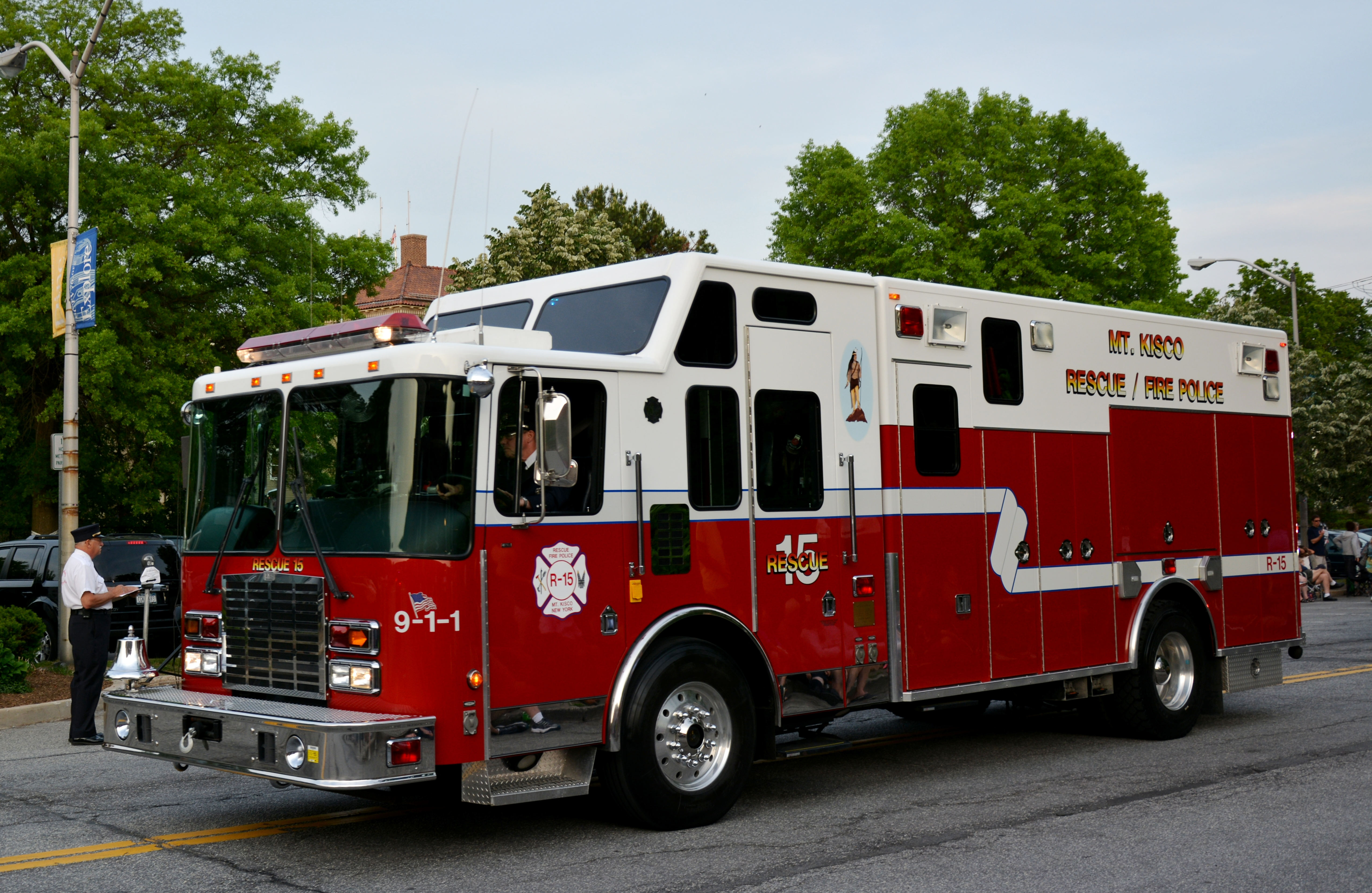 Mt. Kisco NY fire vehicle. I took this at the Pleasantville Firefighters' Parade on May 29, 2015.